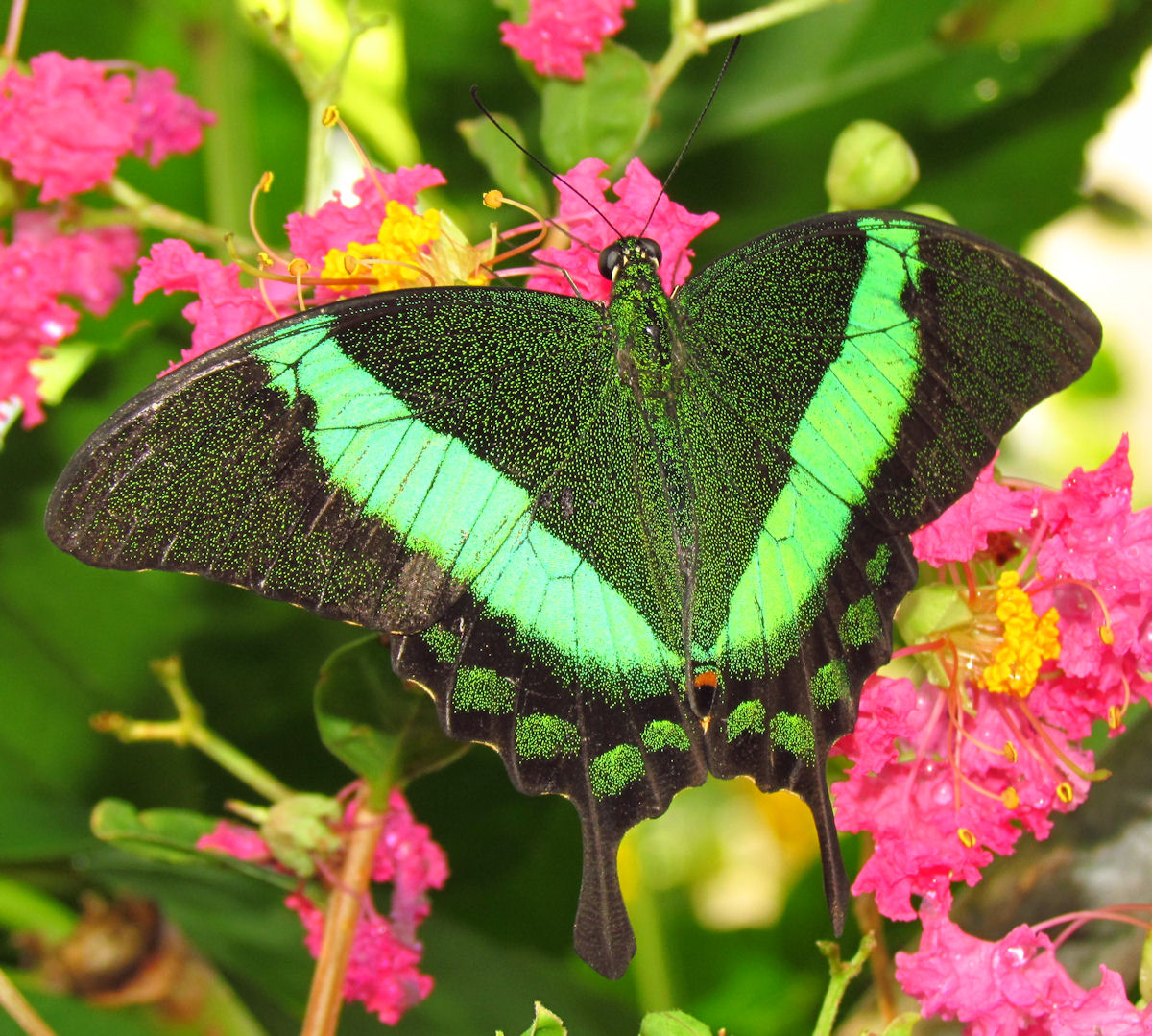 Emerald Swallowtail (Papilio palinurus)